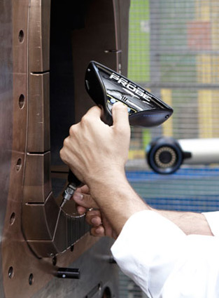 3D inspection tool